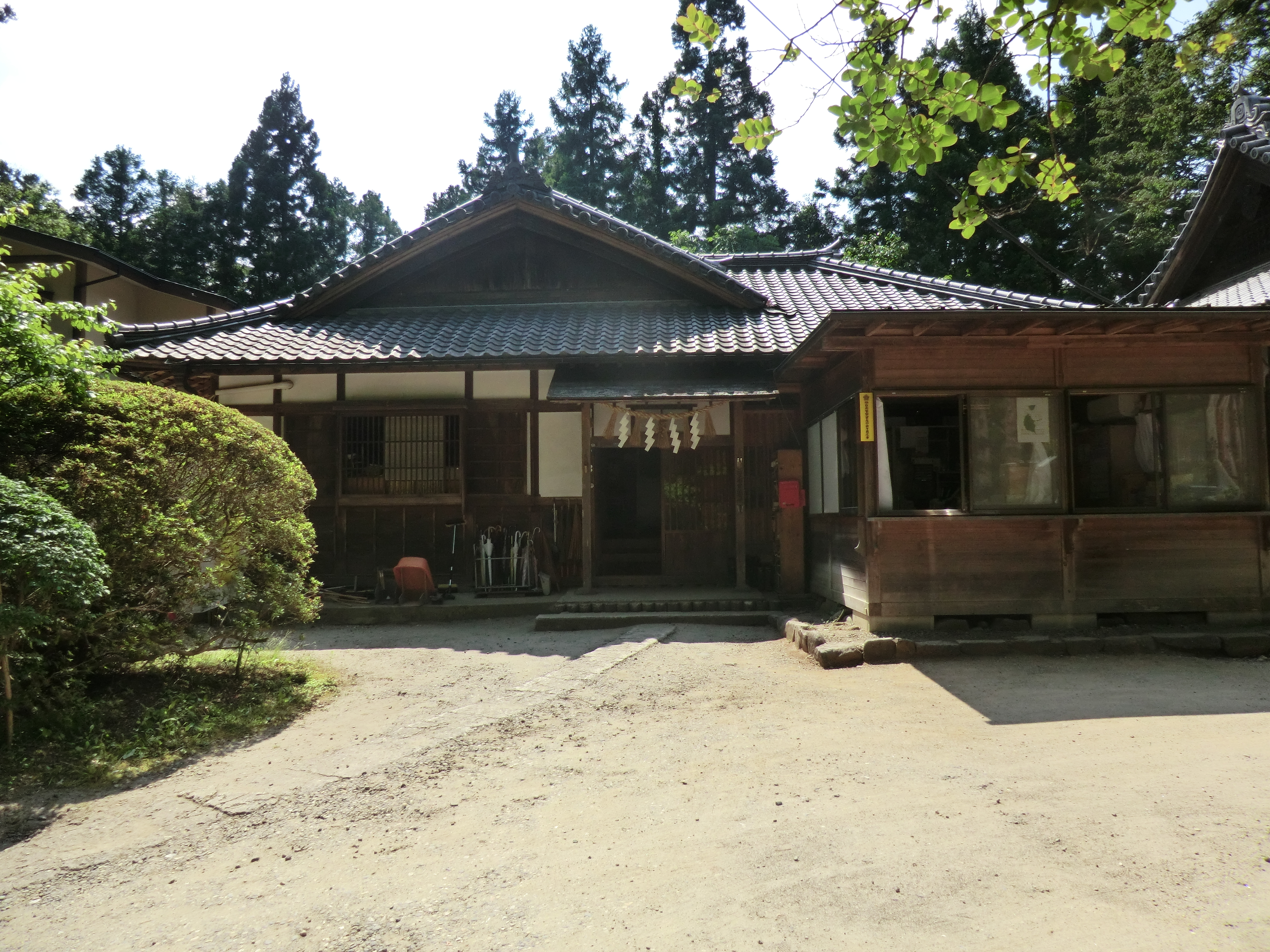 A residential house for chief priest of Ōsaki Hachiman-gū